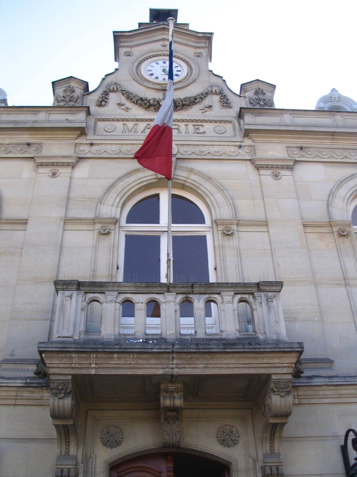 The town hall of Fontenay-aux-Roses, Hauts-de-Seine, France.